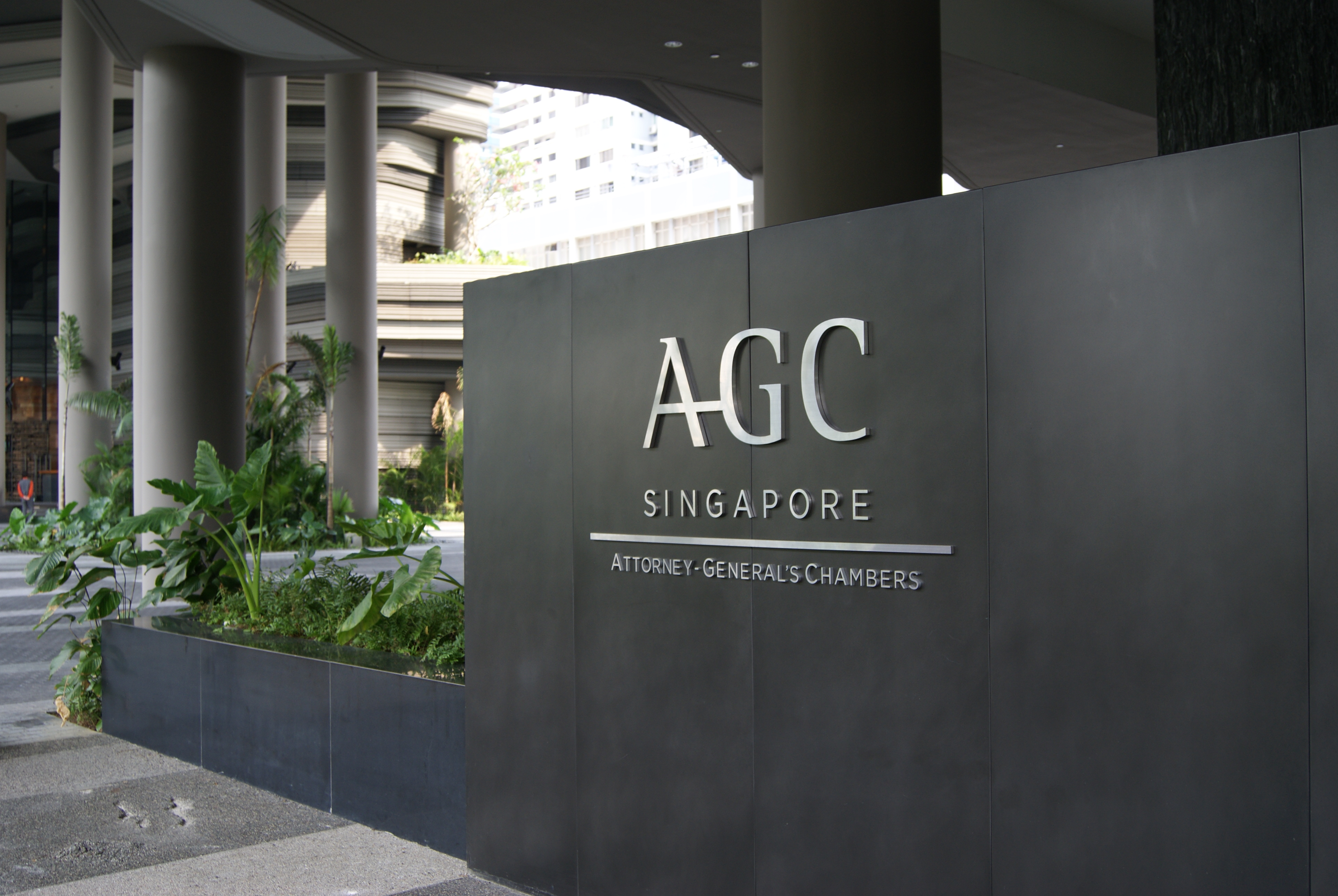 Attorney-General's Chambers sign, One Upper Pickering, Singapore.